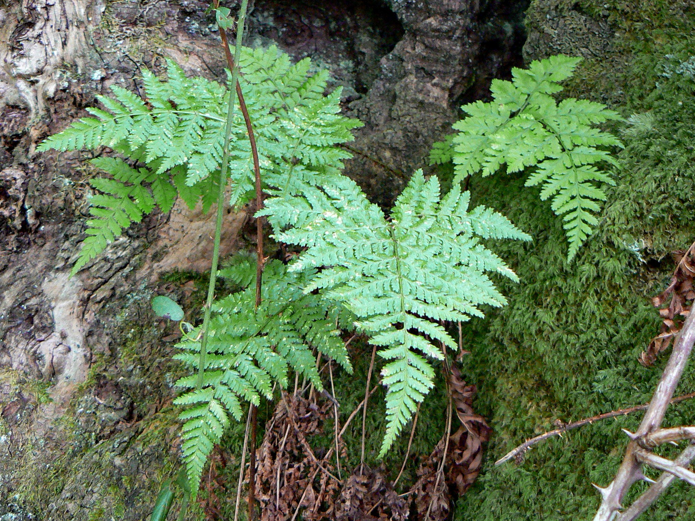 Dryopteris aemula, Picos de Europa